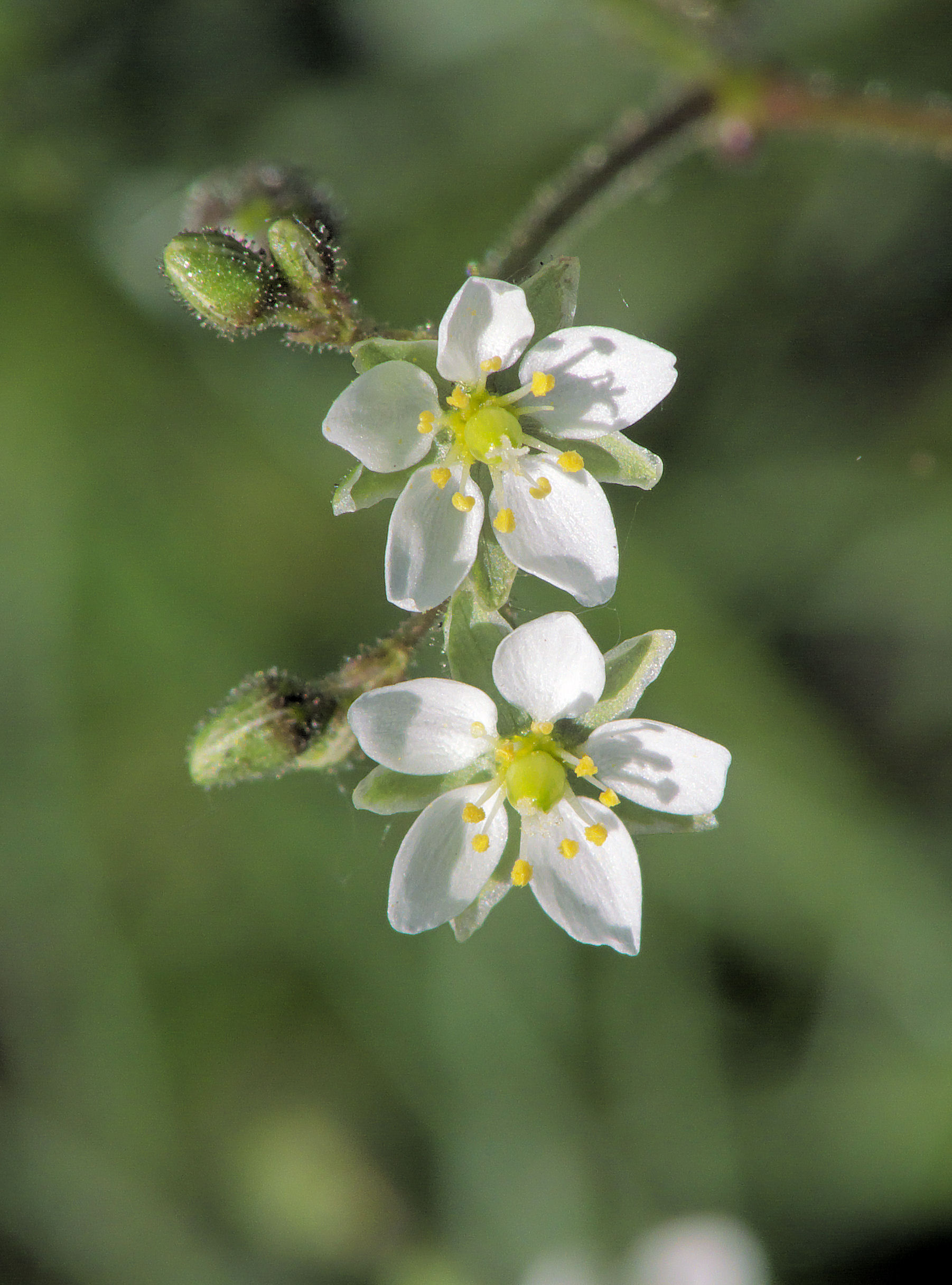 Spergula arvensis